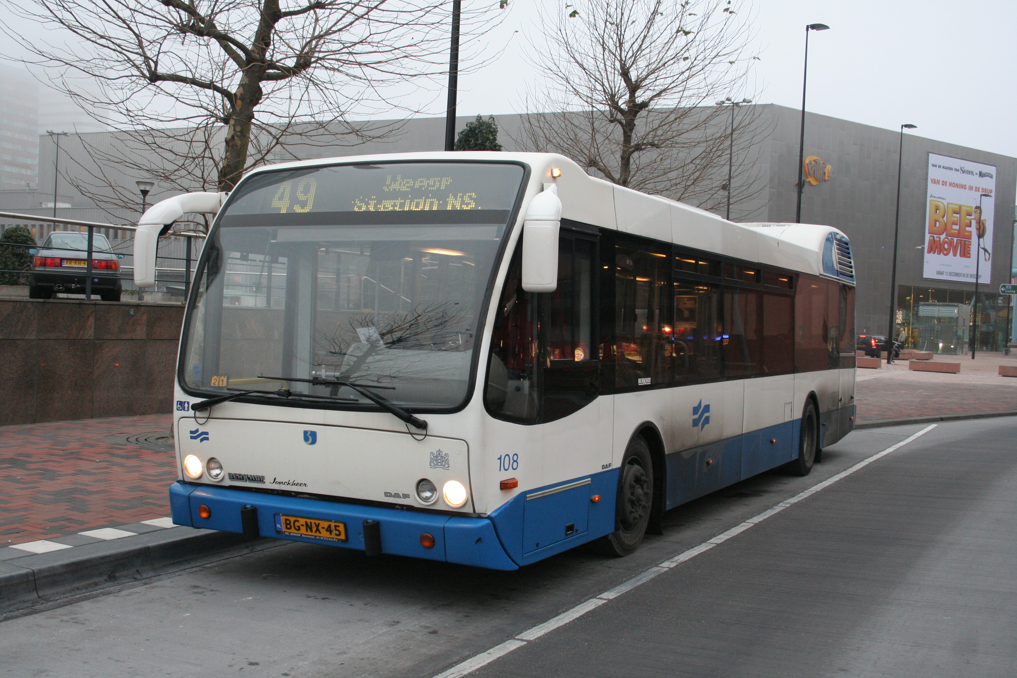 Berkhof Jonckheer 12 city bus (#108, reg. BG-NX-45) with DAF SB250 chassis in Amsterdam, Netherlands. Built 1998, Gemeentevervoerbedrijf (GVB) operator.